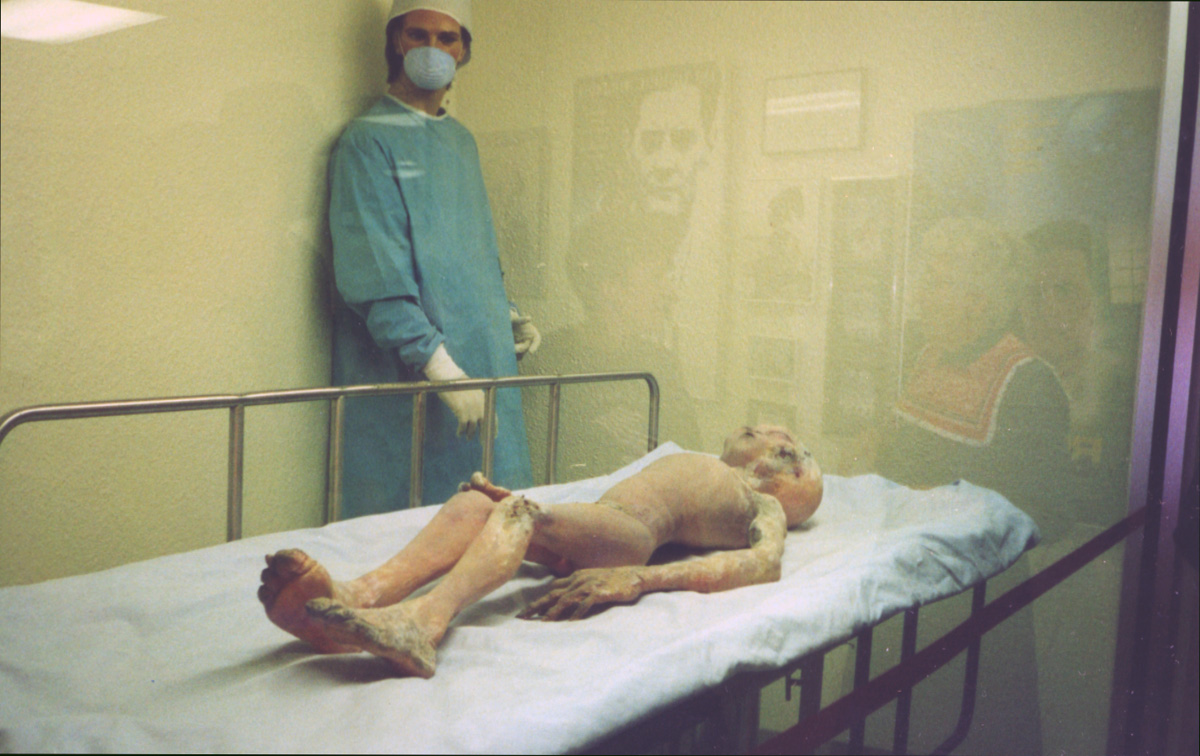 Alien corpse at the Roswell UFO Museum